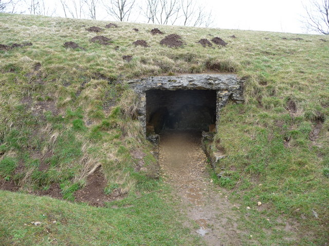 Burial chamber in the western side of Belas Knap long barrow. A decent lunchspot on what was at this point a haily / rainy / sleety lunchtime.